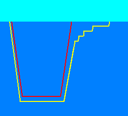 A decompression dive profile in yellow showing a no-stop dive profile in red